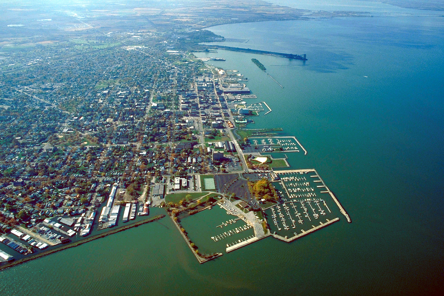 Aerial view of Sandusky, Ohio, USA. The view is to the west-southwest along the waterfront on Sandusky Bay, a large inlet and bay off of Lake Erie.